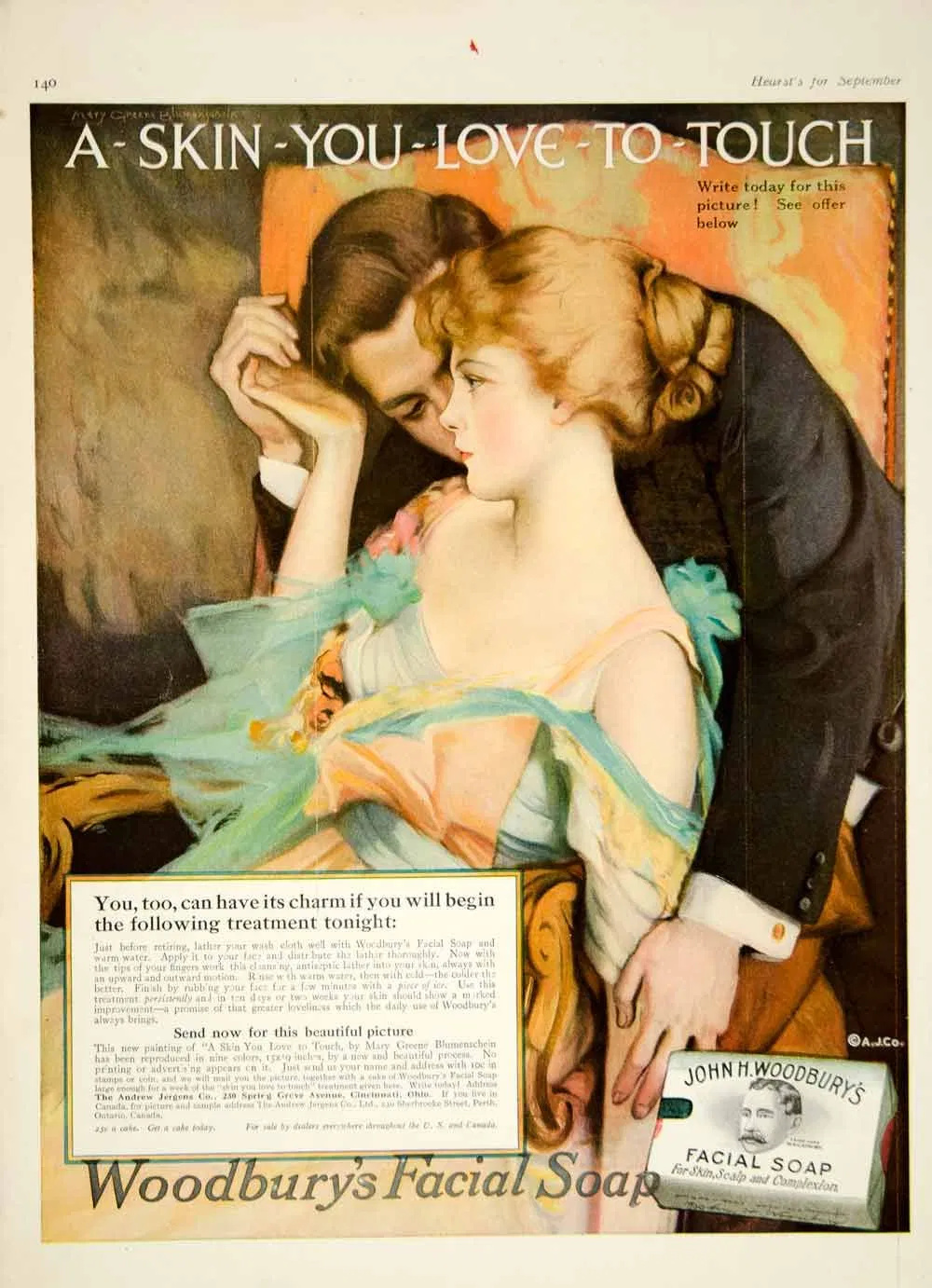 1916 American ad for Woodbury soap; "A skin you love to touch" Other information Variation is on line at